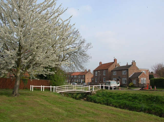 Village green and beck, Wilberfoss, East Riding of Yorkshire, England.One of the bridges over the beck is viewed from a bench on the village green.